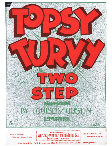 Sheet music cover, featuring the words "Topsy Turvy Two Step" in large, thick, red lettering against a green background. "By Louise V. Gustin" is visible in much lighter, smaller, green lettering below that.